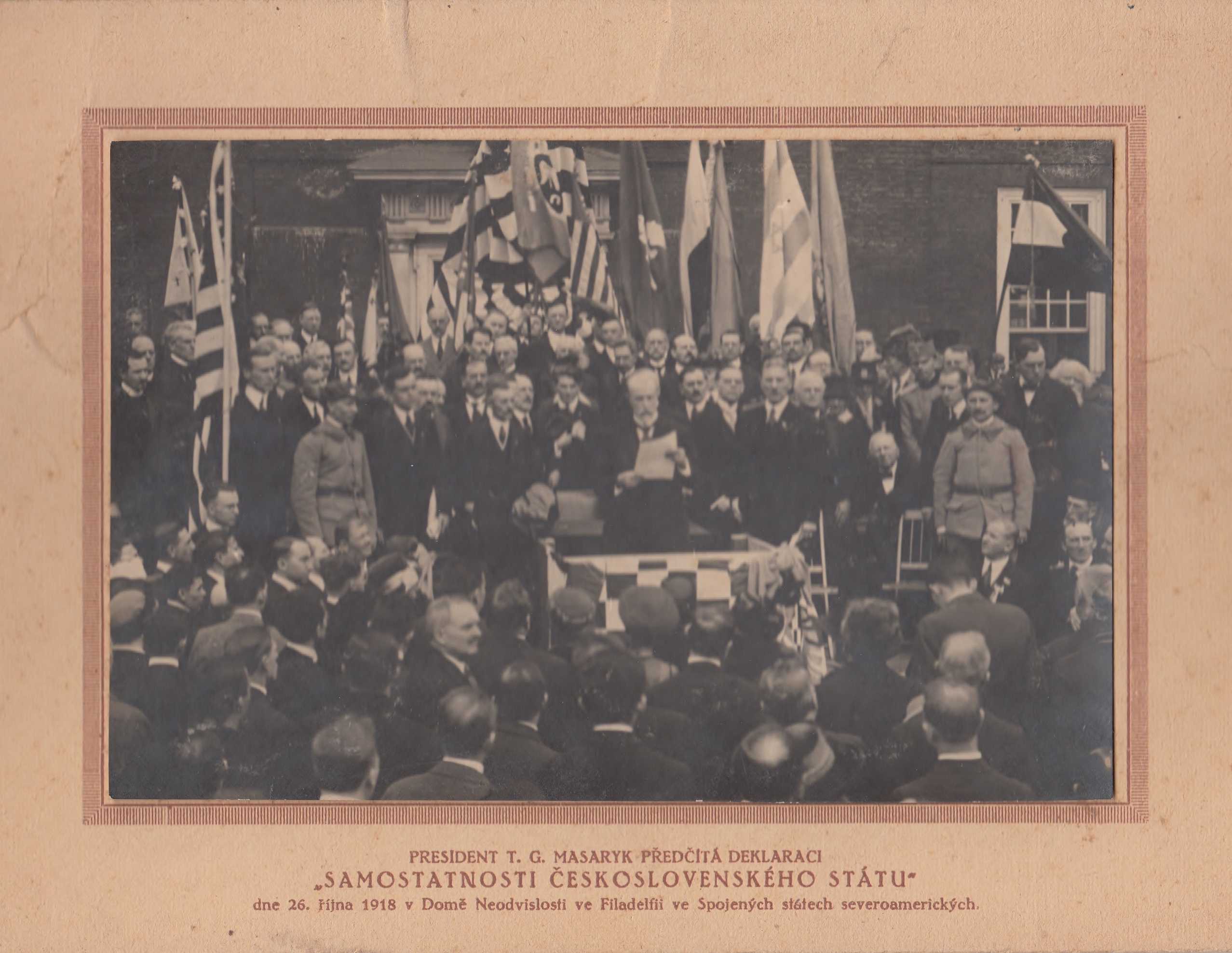 Tomáš Garrigue Masaryk reads the Czechoslovak Declaration of Independence (Washington Declaration) on 26 October 1918, at the Independence Hall in Philadelphia, USA. Inventory number 2450. Srpski (latinica): Tomaš Garig Masarik čita Čehoslovačku deklaraciju nezavisnosti (Vašingtonsku deklaraciju) 26. oktobra 1918. u Dvorani nezavisnosti u Filadelfiji (SAD). Inventarski broj 2450.